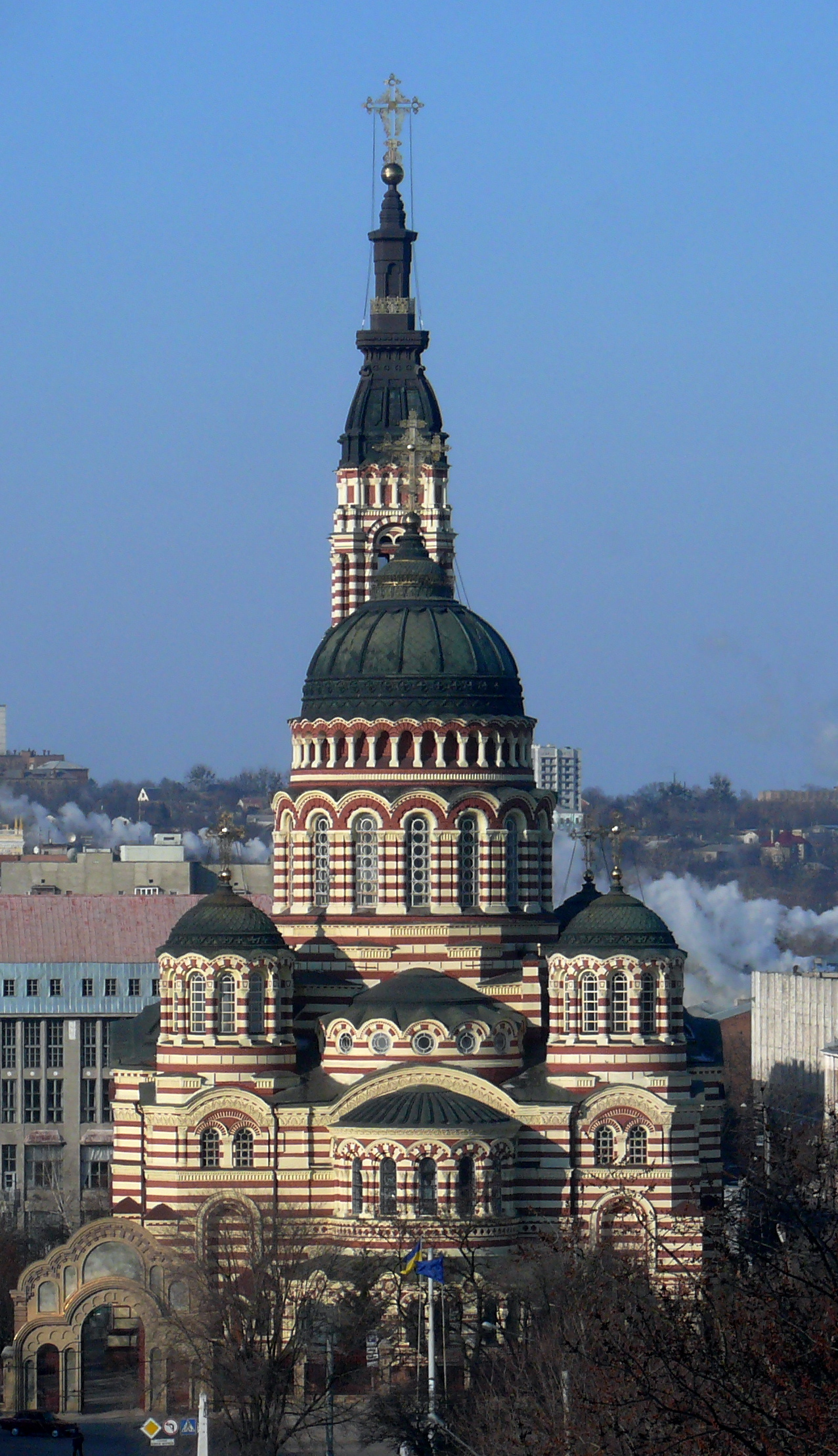 Taken from my apartment on Constitution Square. Apparently it's amazing inside.